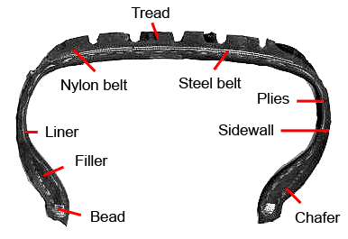 Created by User:G4sxe from scanned image of actual tire section, size 235/60R15 , Edited using Painter Classic and cropped and resampled using Paint Shop Pro. Retouched by User:Tronno in Photoshop (original - :Image:Tire section.jpg). Contents 1 Automatically converted to PNG 1.1 Previous file history 2 Licensing 3 Original upload log Automatically converted to PNG The PNG crusade bot automatically converted this image to the more efficient PNG format. The image was originally uploaded as "Tire section.gif". Previous file history 20:11:08, 29 June 2006 . . Tronno (Talk